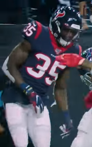 Keion Crossen in 2019. Image from video Titans Mic'd Up vs. Texans (Week 17) | Sounds of the Game, ~ 03:19.